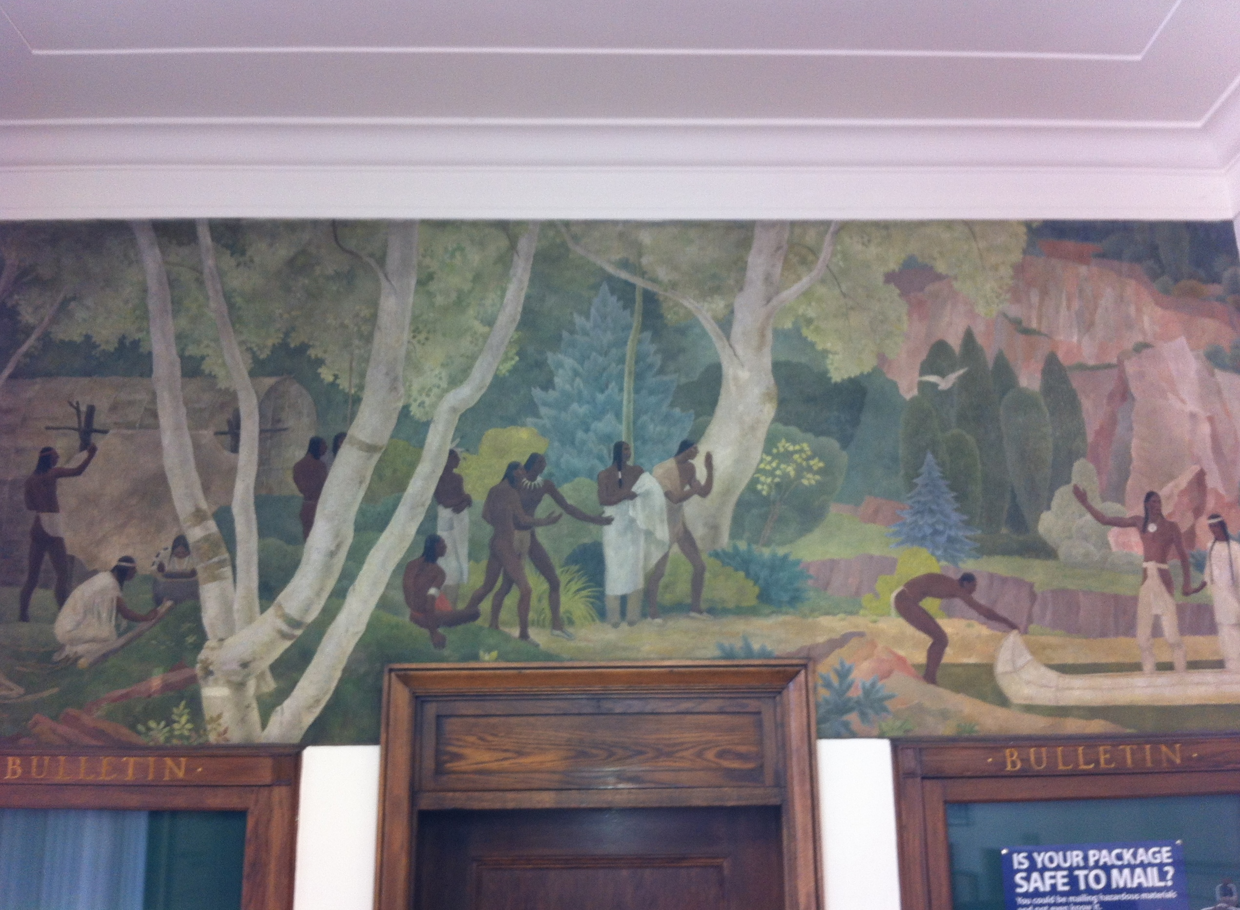 oil on canvas